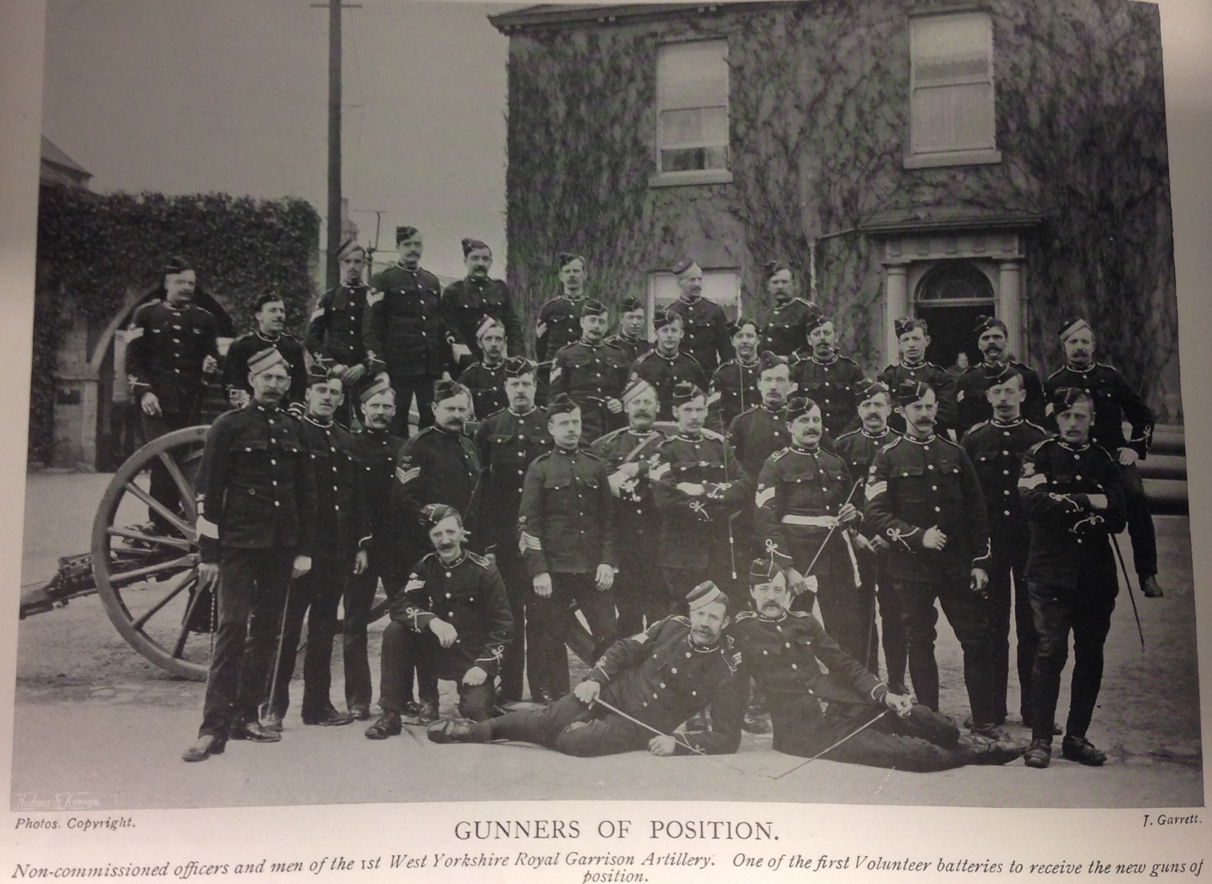 Non Commissioned Officers and men of the 1st West Yorkshire Royal Garrison Artillery (Volunteers), published in the Navy and Army Illustrated, published 1st November 1902